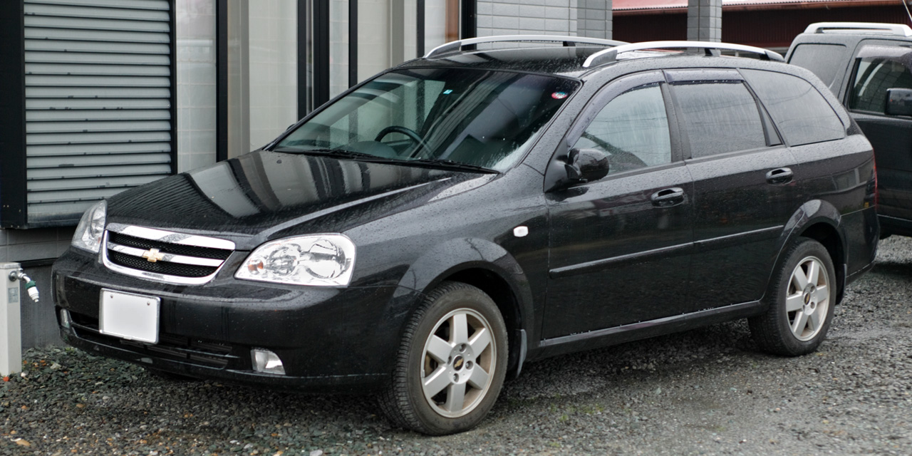 Chevrolet Optra Wagon (Japan spec)